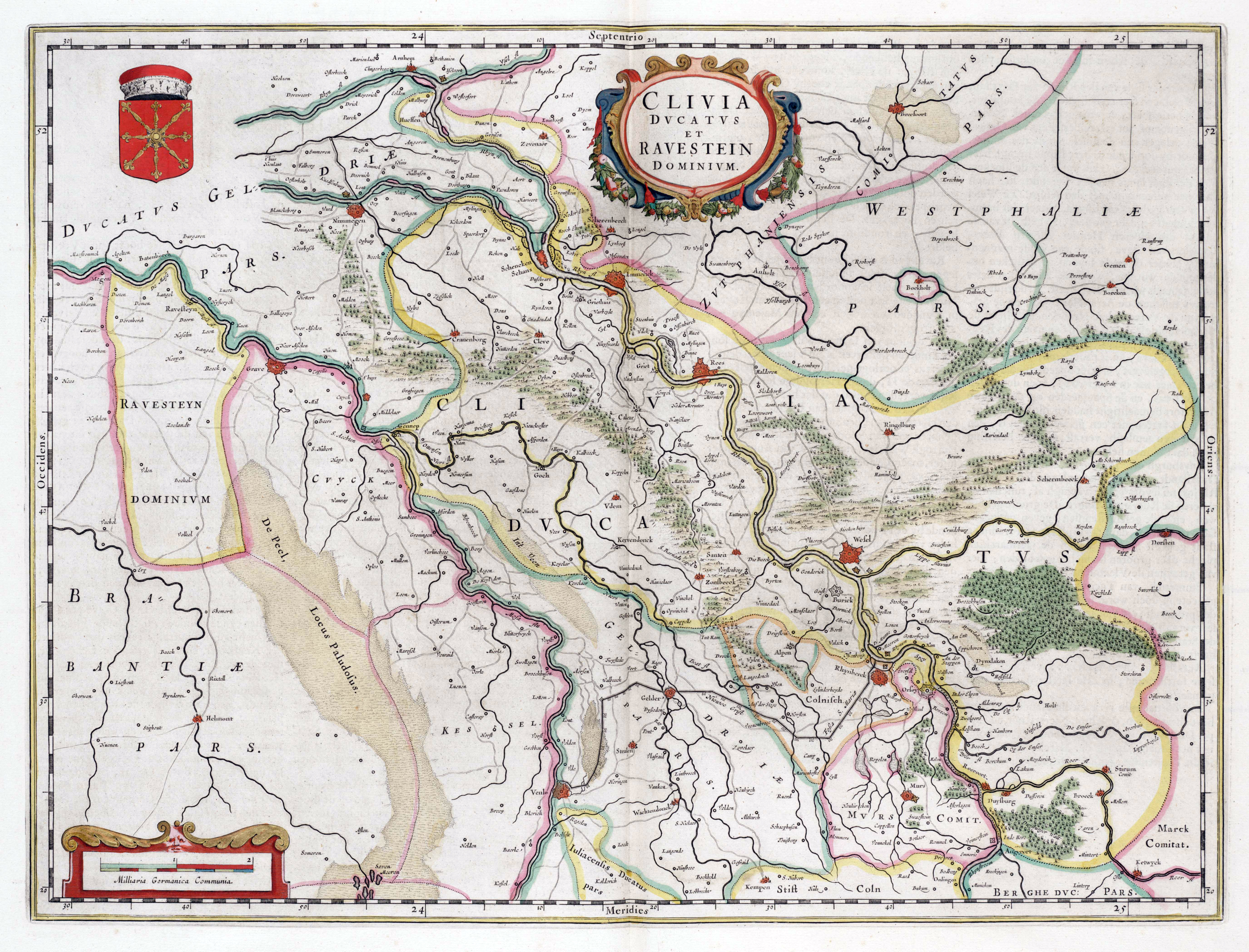 Kleef kaart 1663 CLIVIA DVCATVS ET RAVESTEIN DOMINIVM Map of Kleve Cleves